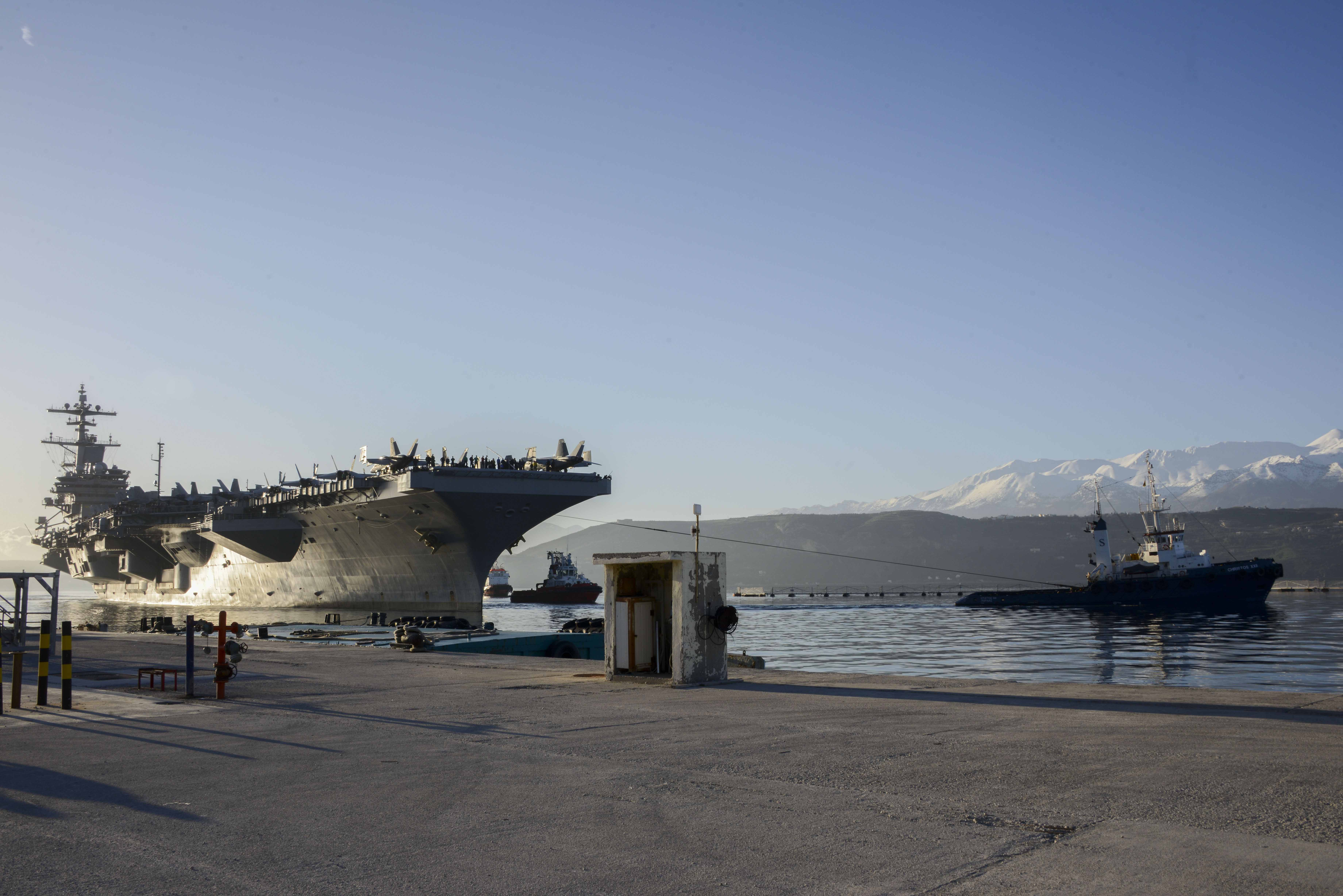 SOUDA BAY, Greece (Feb. 6, 2017) The Nimitz-Class aircraft carrier USS George H.W. Bush (CVN 77) arrives in Souda Bay for a scheduled port visit. The ship’s carrier strike group is conducting naval operations in the U.S. 6th Fleet area of operations in support of U.S. national security interests. (U.S. Navy photo by Mass Communication Specialist 2nd Class Chase Martin/Released)170206-N-XR948-005 Join the conversation: navylive.dodlive.mil